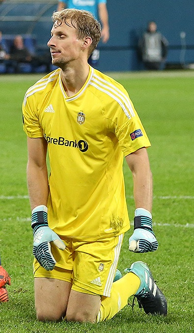 André Hansen with Rosenborg in an Europa League game against Zenit St. Petersburg.